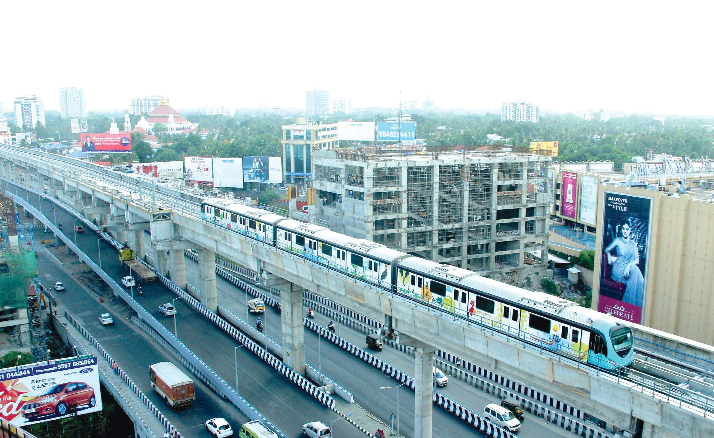 National Highway 544, Edapilly junction in Kochi city